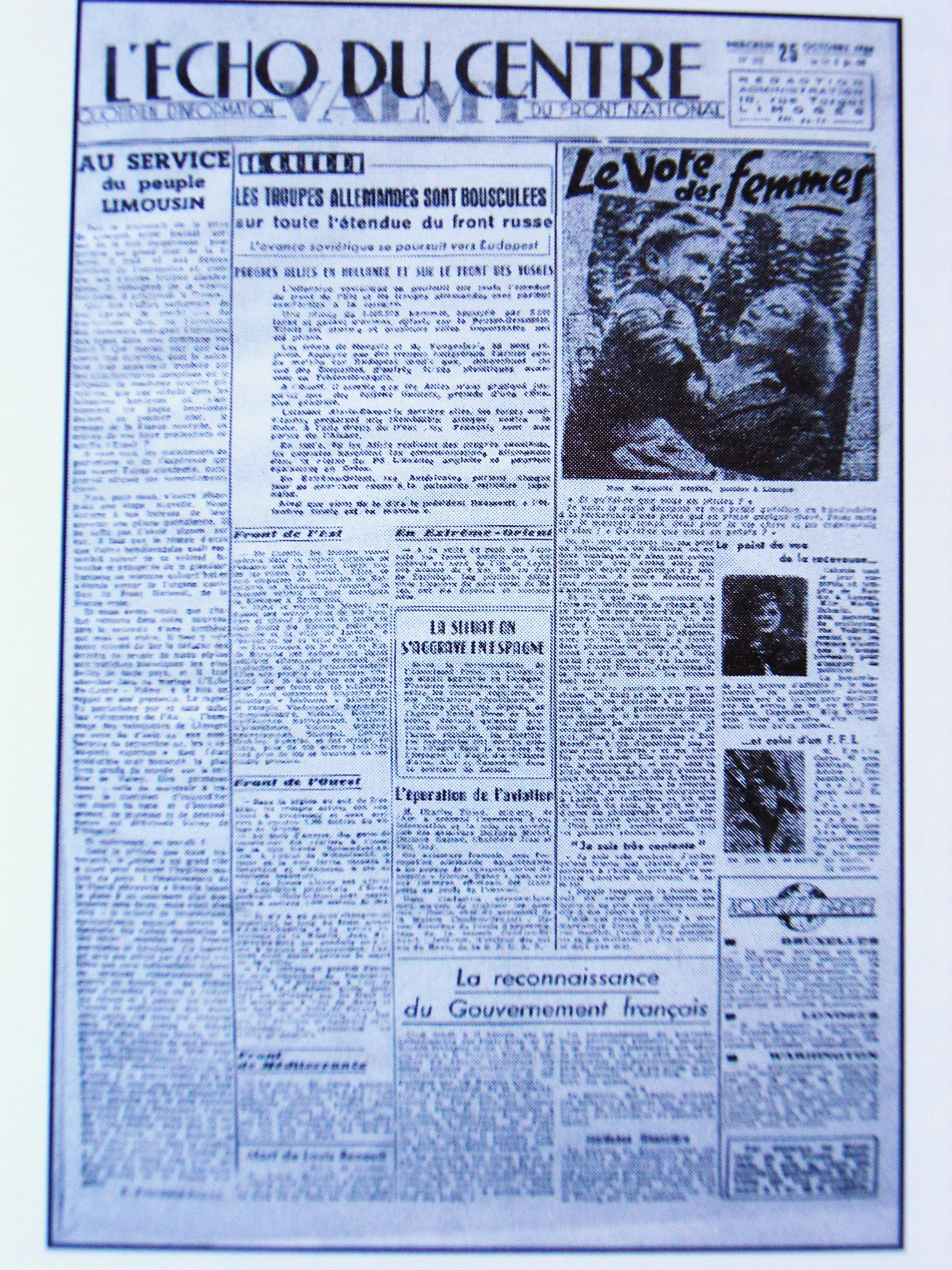 The french newspaper "L'Echo du Centre" in 1944